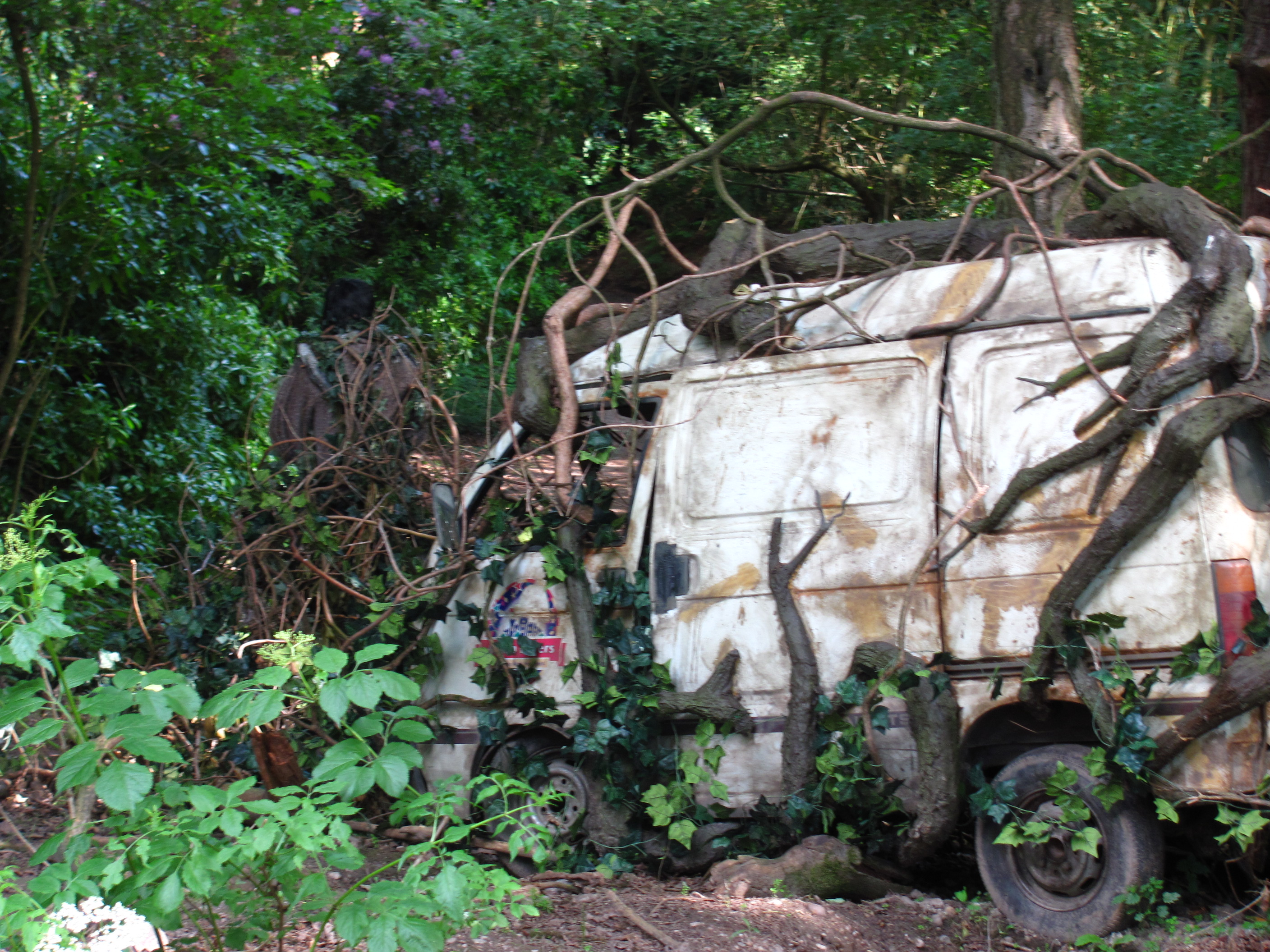 Alton Towers 058